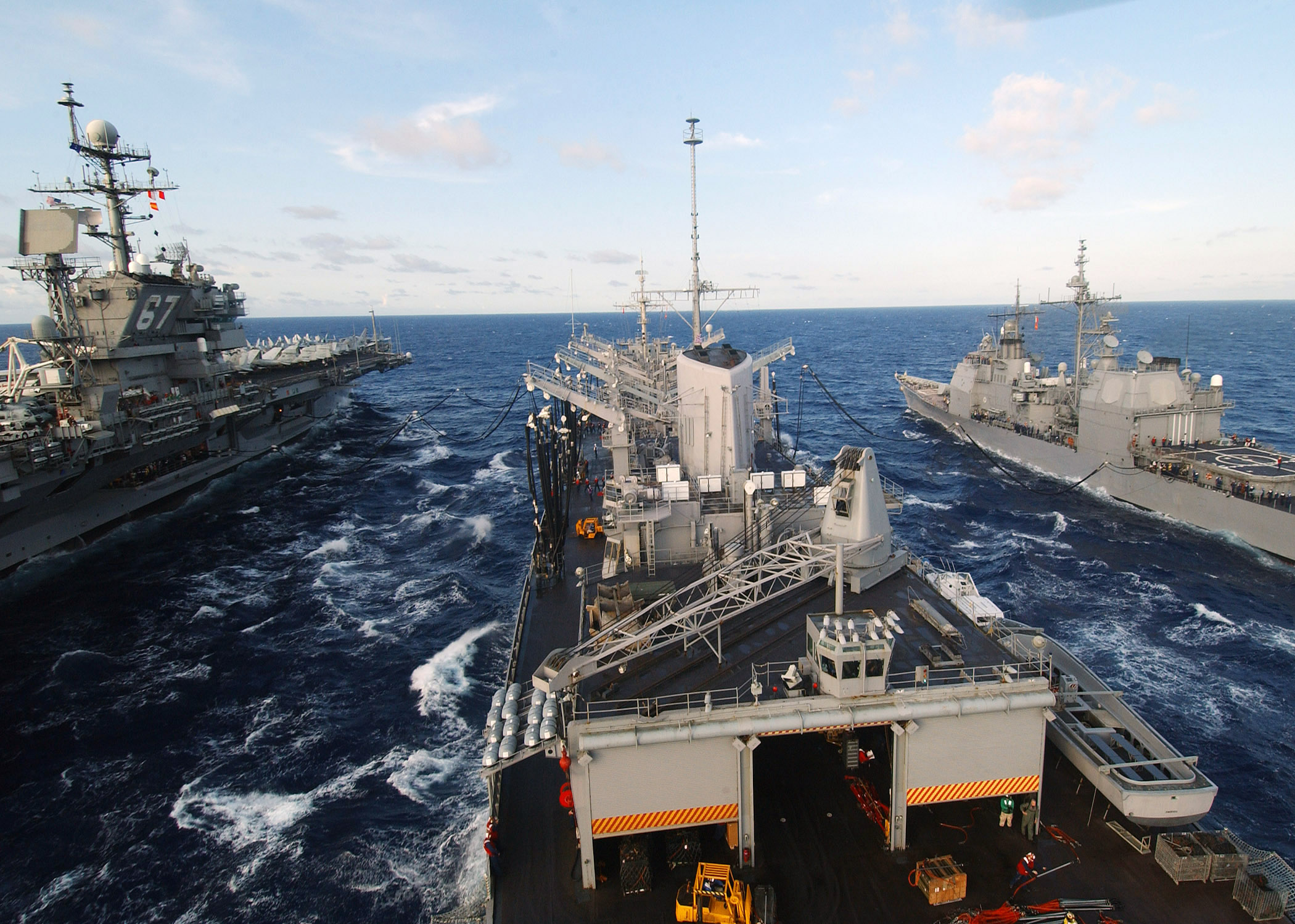 Atlantic Ocean (Jun. 11, 2004) - The fast combat support ship USS Seattle (AOE 3) conducts an underway replenishment with the aircraft carrier USS John F. Kennedy (CV 67) and the guided missile cruiser USS Vicksburg (CG 69) simultaneously in the Atlantic Ocean. Seattle and Vicksburg are part of the John F. Kennedy Carrier Strike Group, currently involved in a joint exercise, known as Combined Joint Task Force Exercise. The exercise allows all services and several countries to train the way they fight - in a joint environment. U.S. Navy photo by Photographer's Mate 2nd Class Michael Sandberg (RELEASED)